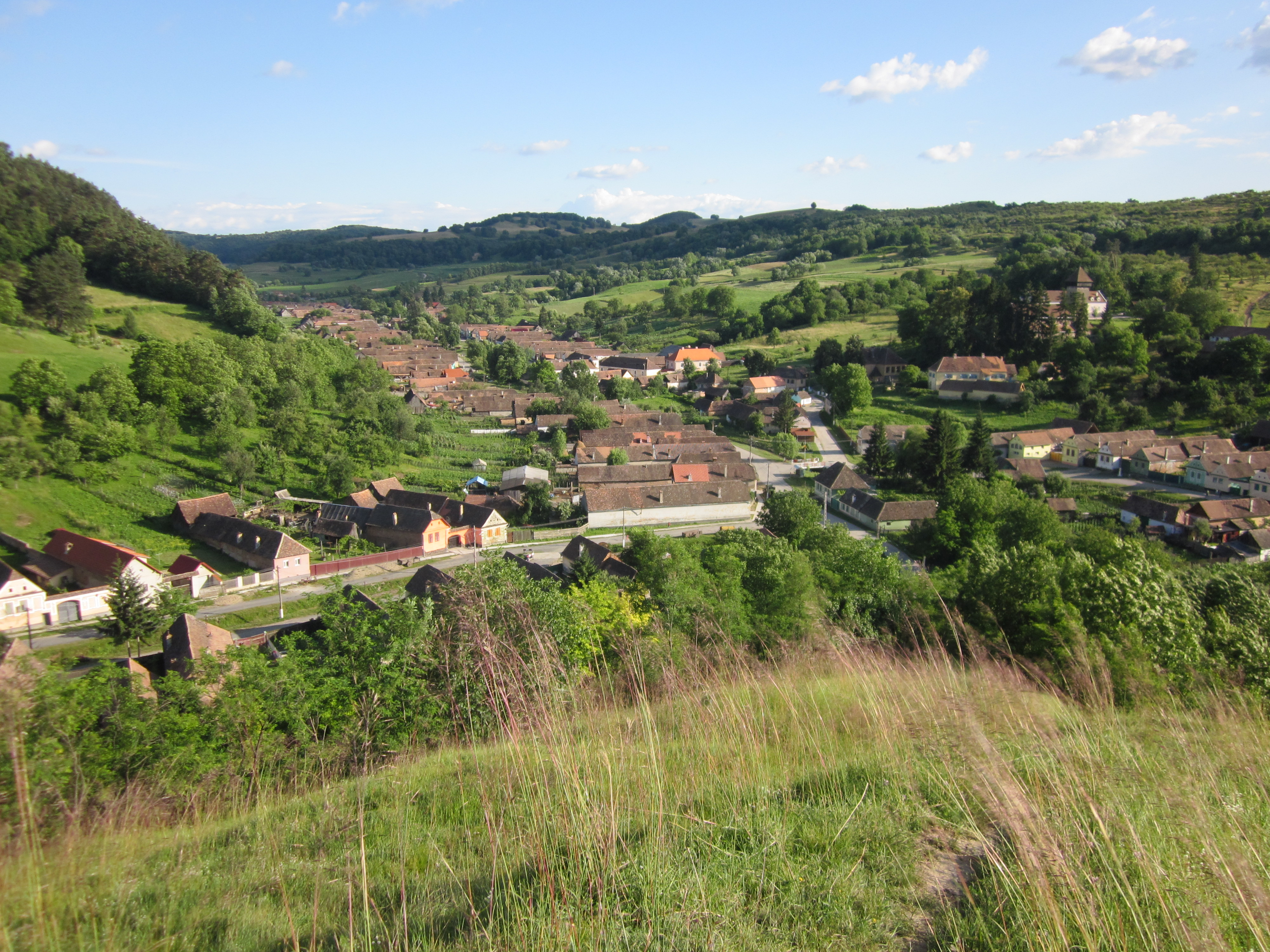 Mălâncrav (Malmkrog) village, Sibiu, historical center, view from NW